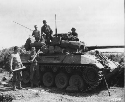 Crewmen load ammo into an M18.